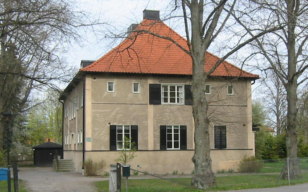 House on the street Götavägen in Kåbo, Uppsala, Sweden.